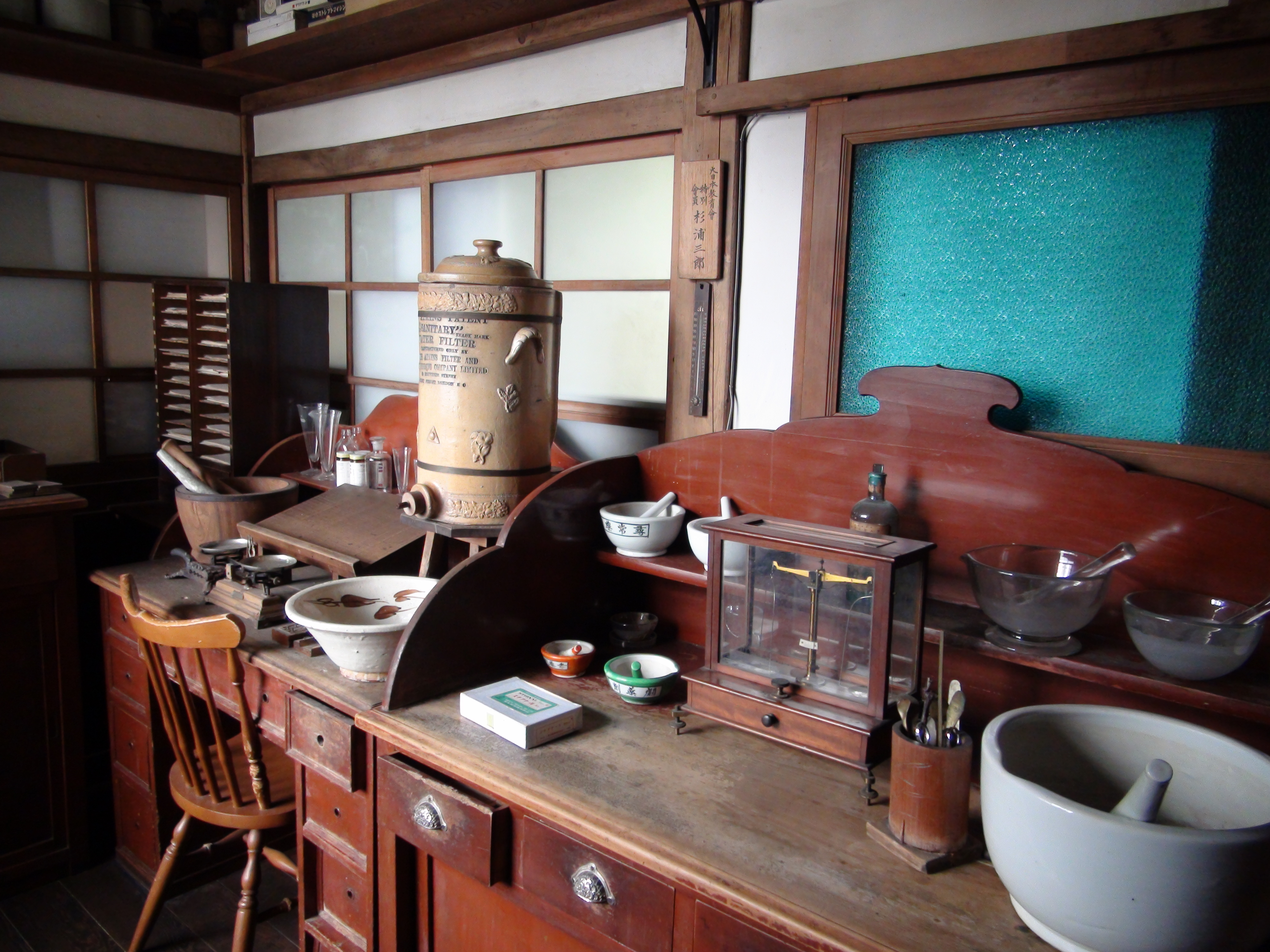 Dr.Sugiura Memorial Museum Drug compounding control room